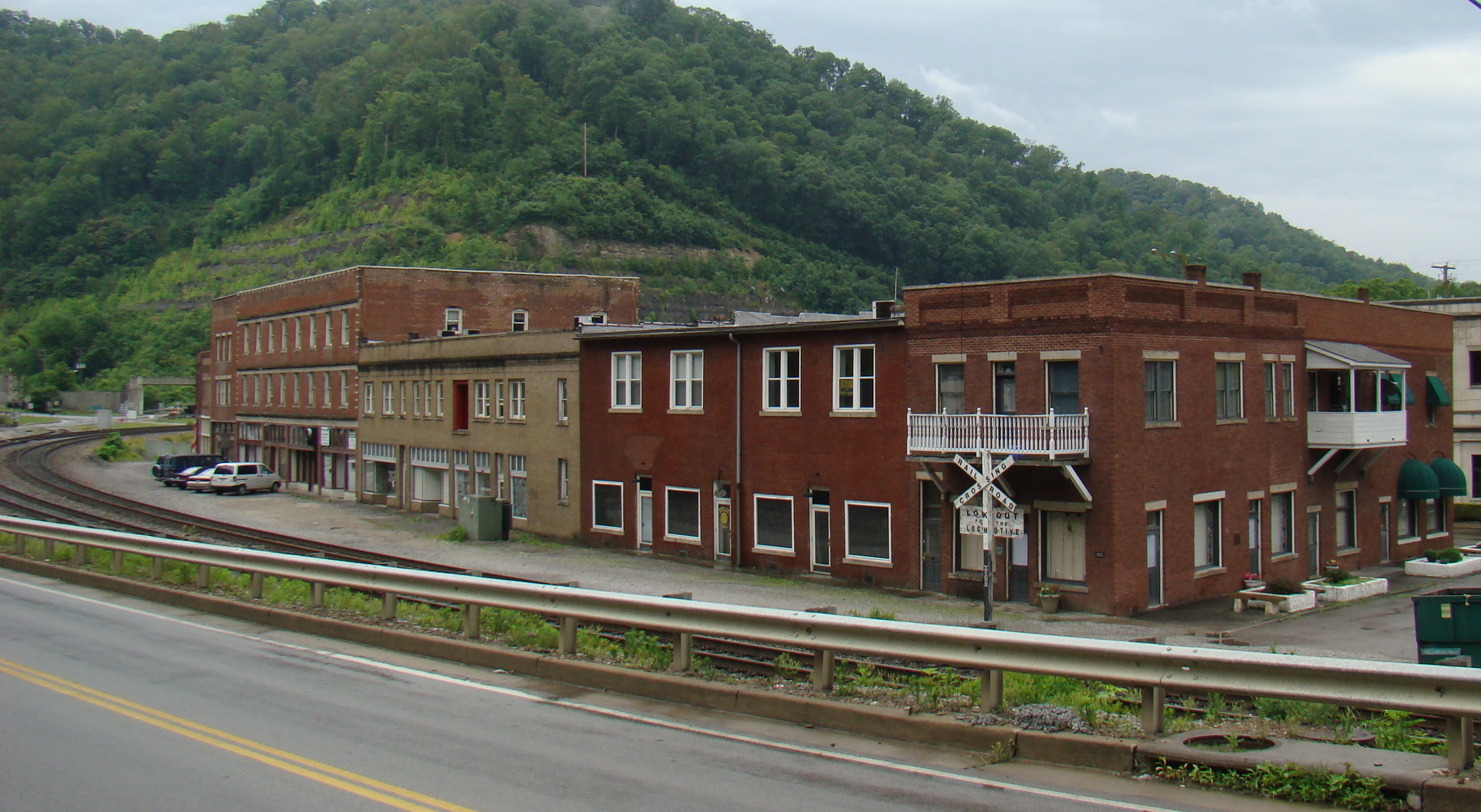 View of Matewan, West Virginia. Matewan Historic District, a National Historic Landmark, was the site of the Battle of Matewan in May 1920 during a coal miners' strike.